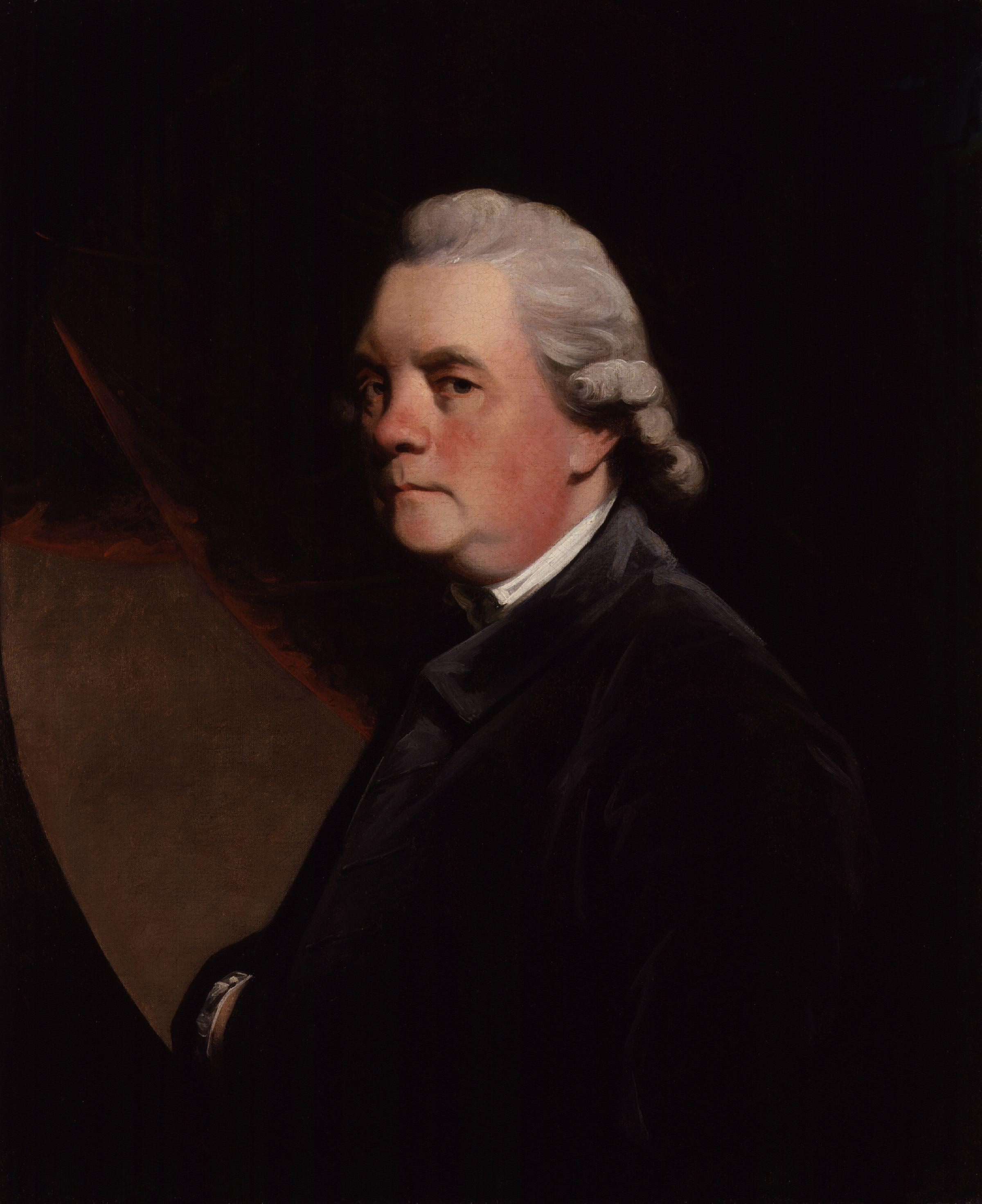 William Mason, by William Doughty. All images in this batch have a known author, but have manually examined for strong evidence that the author was dead before 1939, such as approximate death dates, birth dates, floruit dates, and publication dates.